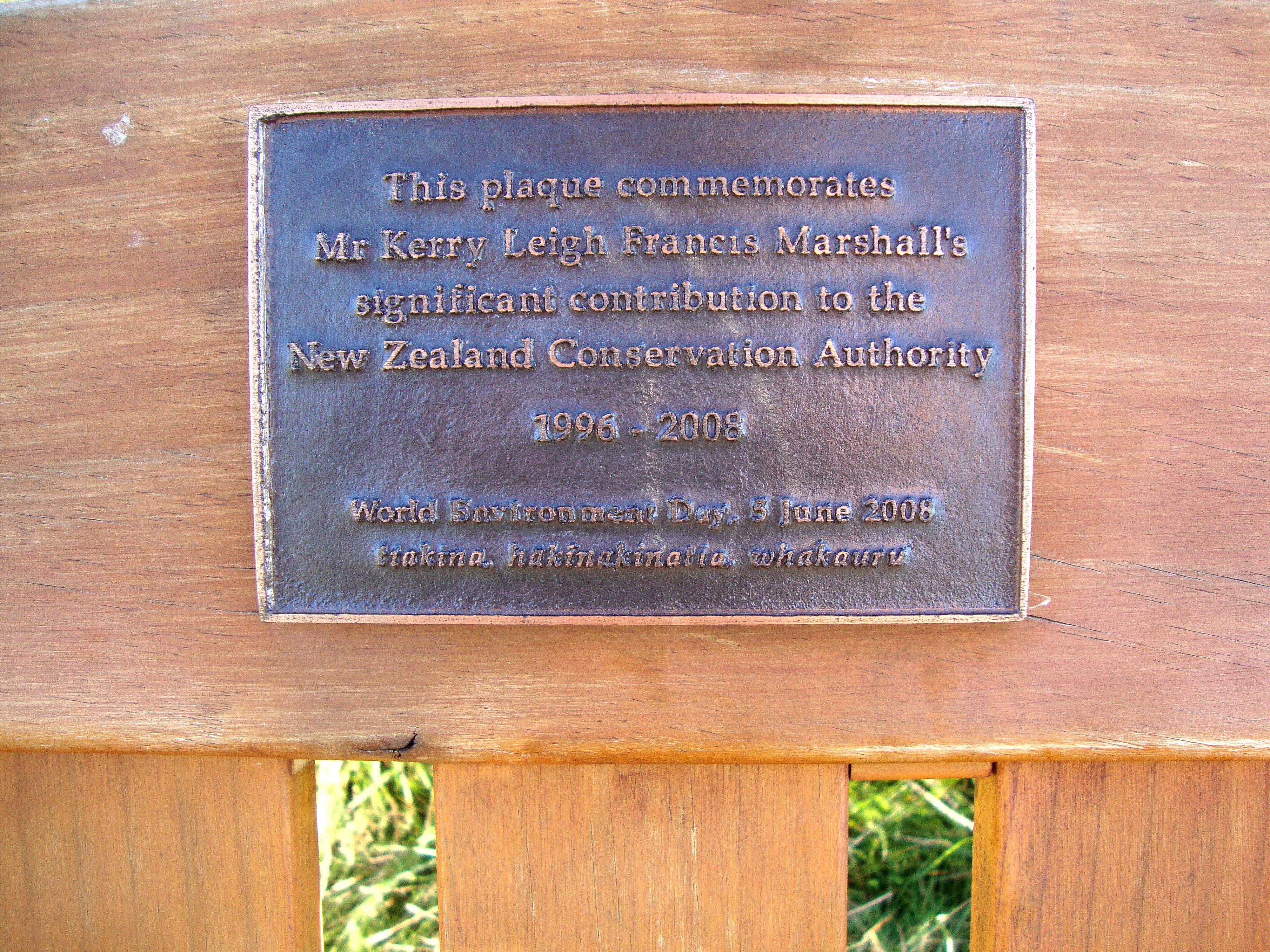 Plaque acknowledging the contribution of Kerry Marshall to the New Zealand Conservation Authority. Mounted on a bench on a track above Cable Bay.